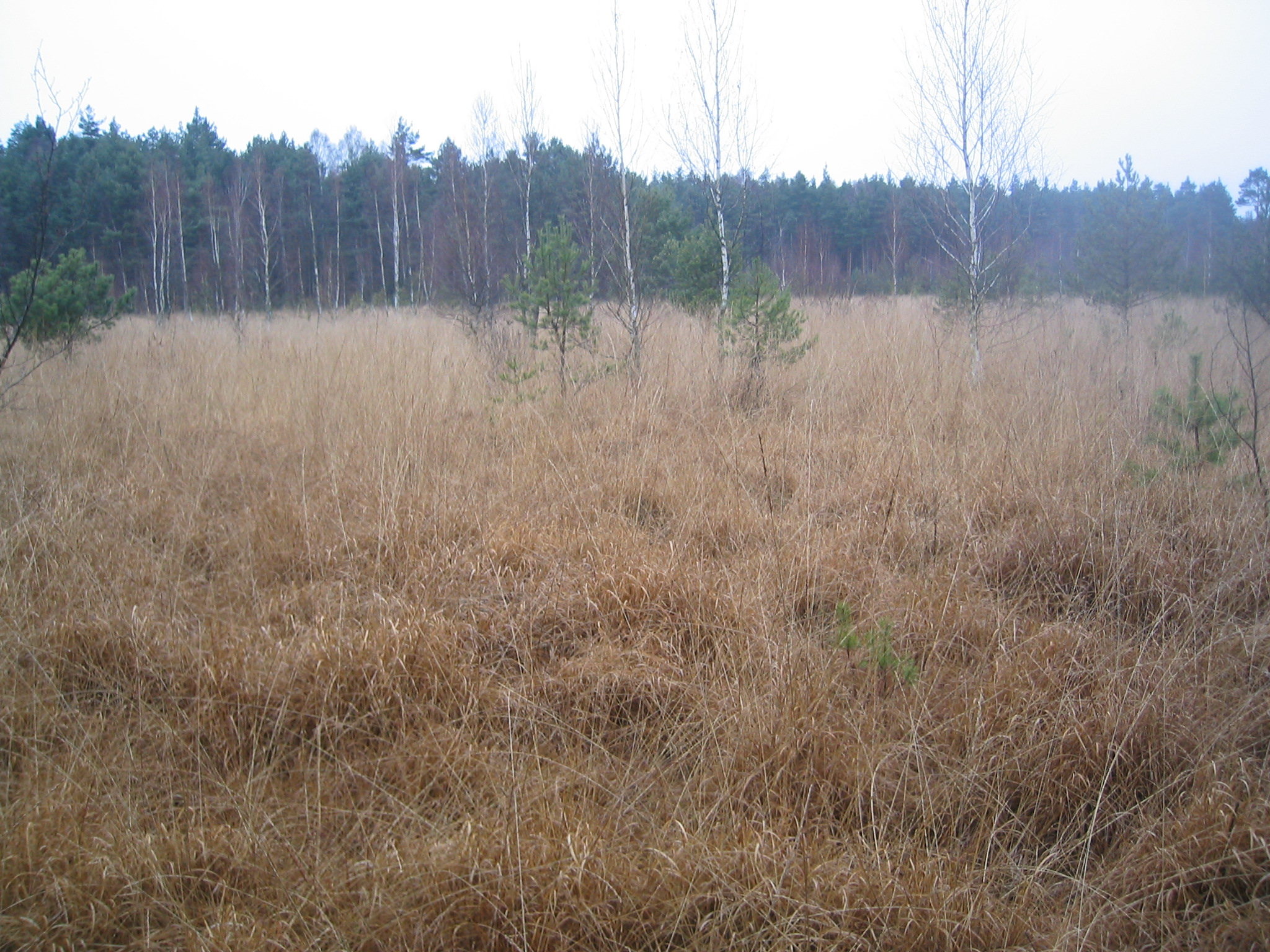 Molinia meadow